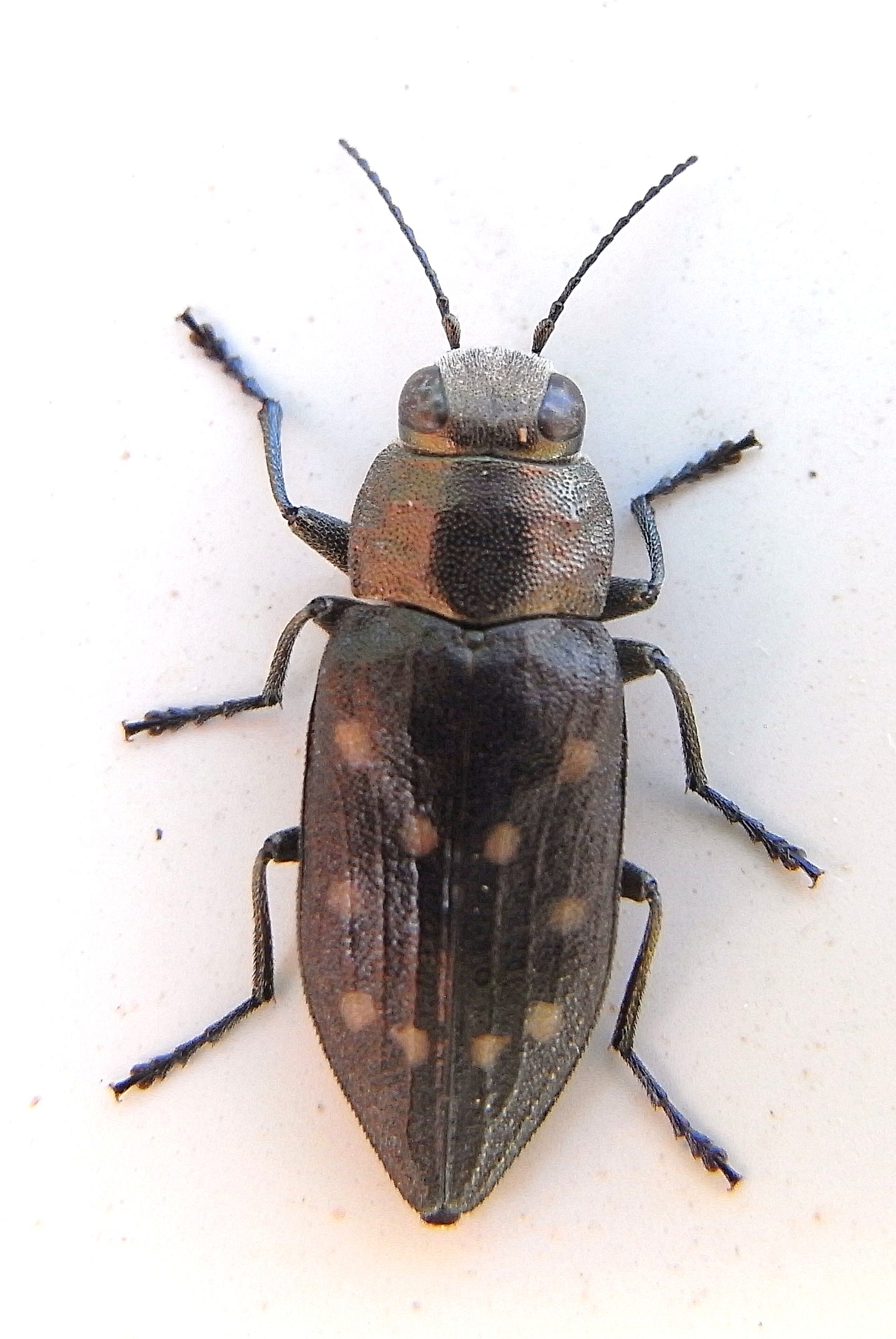 Trachypteris picta from Hungary, Harkany Ricoh R8